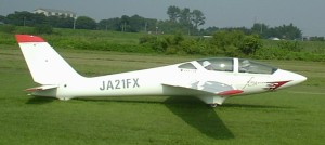 At Itakura Gliderport, Gunma, Japan. A tandem aerobatic glider, Fox, JA21FX, is launching by aerotow.